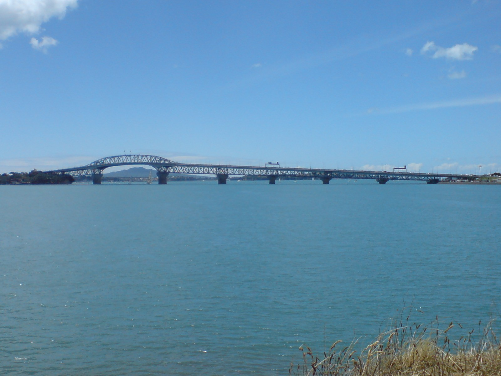 The Auckland Harbour Bridge, Auckland, New Zealand, as seen from the southwest, from Watchman Island in the Waitemata Harbour.